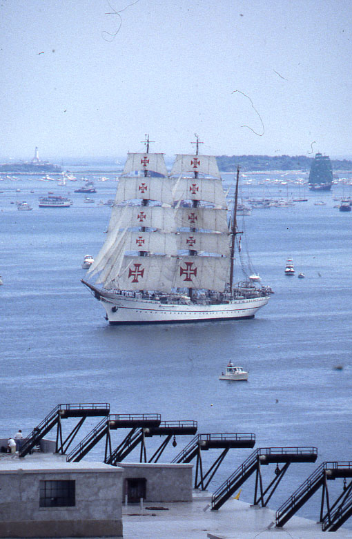 Title: NRP Sagres III, Boston Harbor, 1992 Creator: Peter H. Dreyer Date: 1992 Source: Collection 9800.007, Peter H. Dreyer slide collection File name: 9800007_438 Photographer: Peter H. Dreyer Rights: Public Domain, Please credit Peter H. Dreyer Citation: Peter H. Dreyer slide collection, Collection #9800.007, City of Boston Archives, Boston